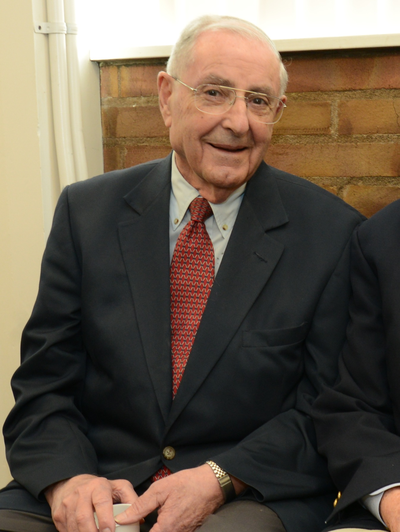 Former Oregon Governor Vic Atiyeh joins Oregon State Defense Force Brig. Gen. James B. Thayer for a quiet moment at the start of the tour of the Oregon Military Museum's construction site at Camp Withycombe in Clackamas, Ore., April 11. The two were joined by former Oregon Governor Ted Kulongoski, Miss Oregon Nichole Mead, Oregon Department of Veterans Affairs Director Cameron Smith, President of Emmert International Terry Emmert, and John, Jim and Mike Thayer, for a tour of the construction site, and were able to watch the removal of the old Camp Withycombe guard shack. Several individuals from today’s group are scheduled to attend a sold-out fundraiser event on April 20, which will feature entertainment by Tommy Thayer of the rock band KISS. Proceeds from the gala event will go toward the two-year capital campaign to raise funds for the Brig. Gen. James B. Thayer Museum located at Camp Withycombe. (Photo by Master Sgt. Nick Choy, Oregon Military Department Public Affairs)